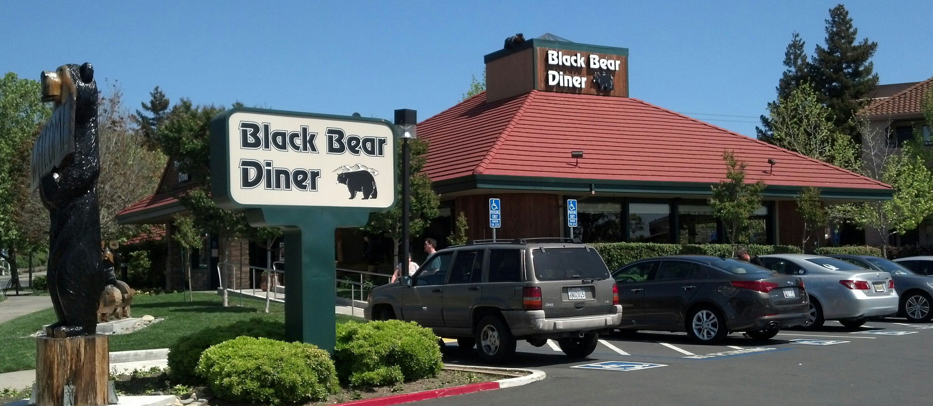 The Black Bear Diner in Vallejo, California. Photo by Jim Heaphy.